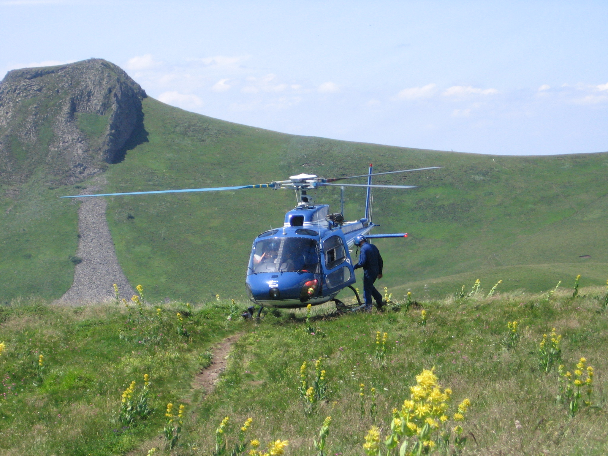 Helicopter rescuing an injured person on the Massif du Sancy mountains. Photo taken with a Canon Powershot A510 camera.